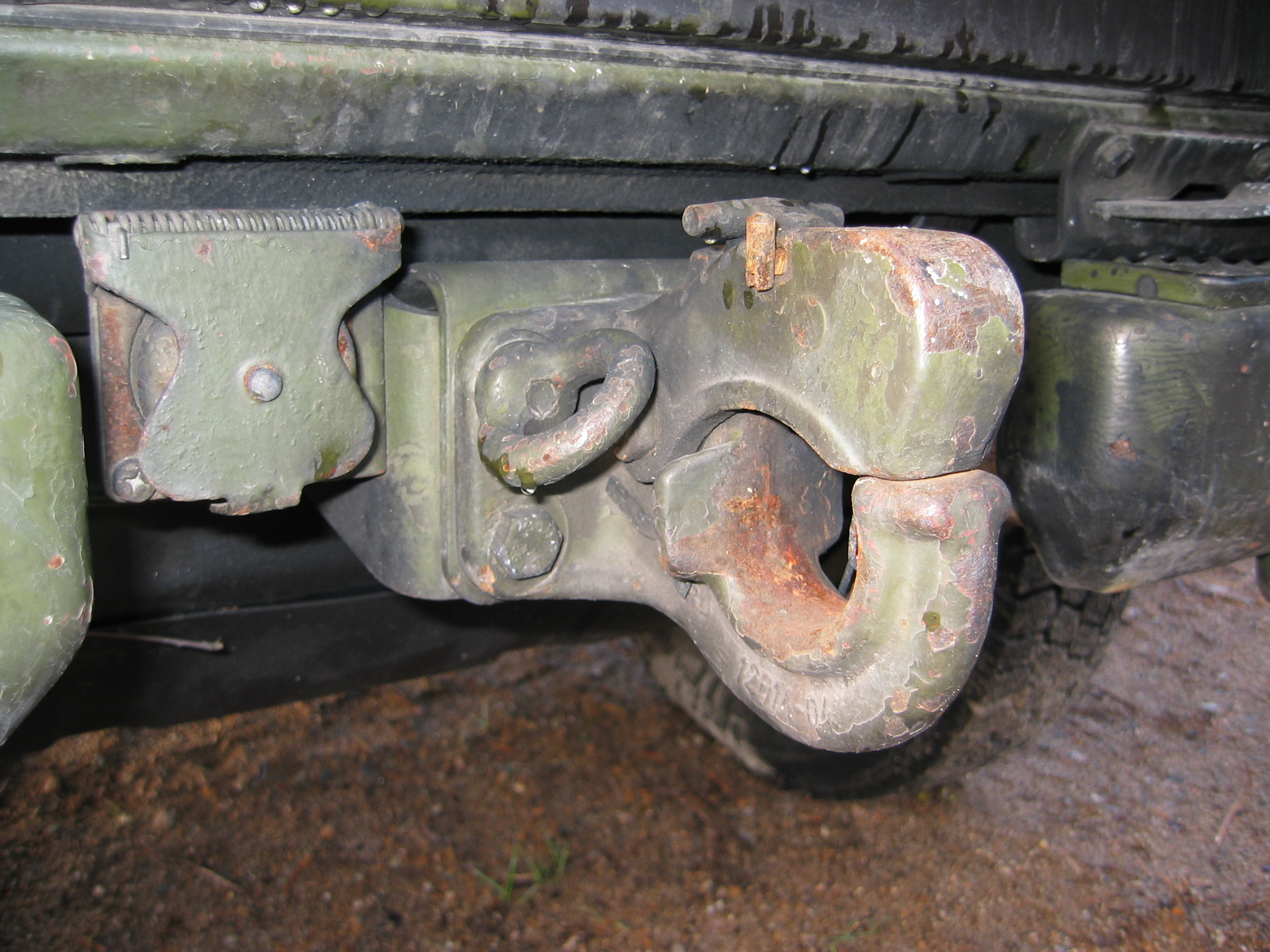 Description A light NATO towhook, here on a Mercedes-Benz Geländewagen jeep in Norwegian military service. Date 6 Nov 2005 Photographer Harald Hansen